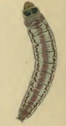 Stainton’s Natural History of the Tineina (1855–1873): Scrobipalpa costella